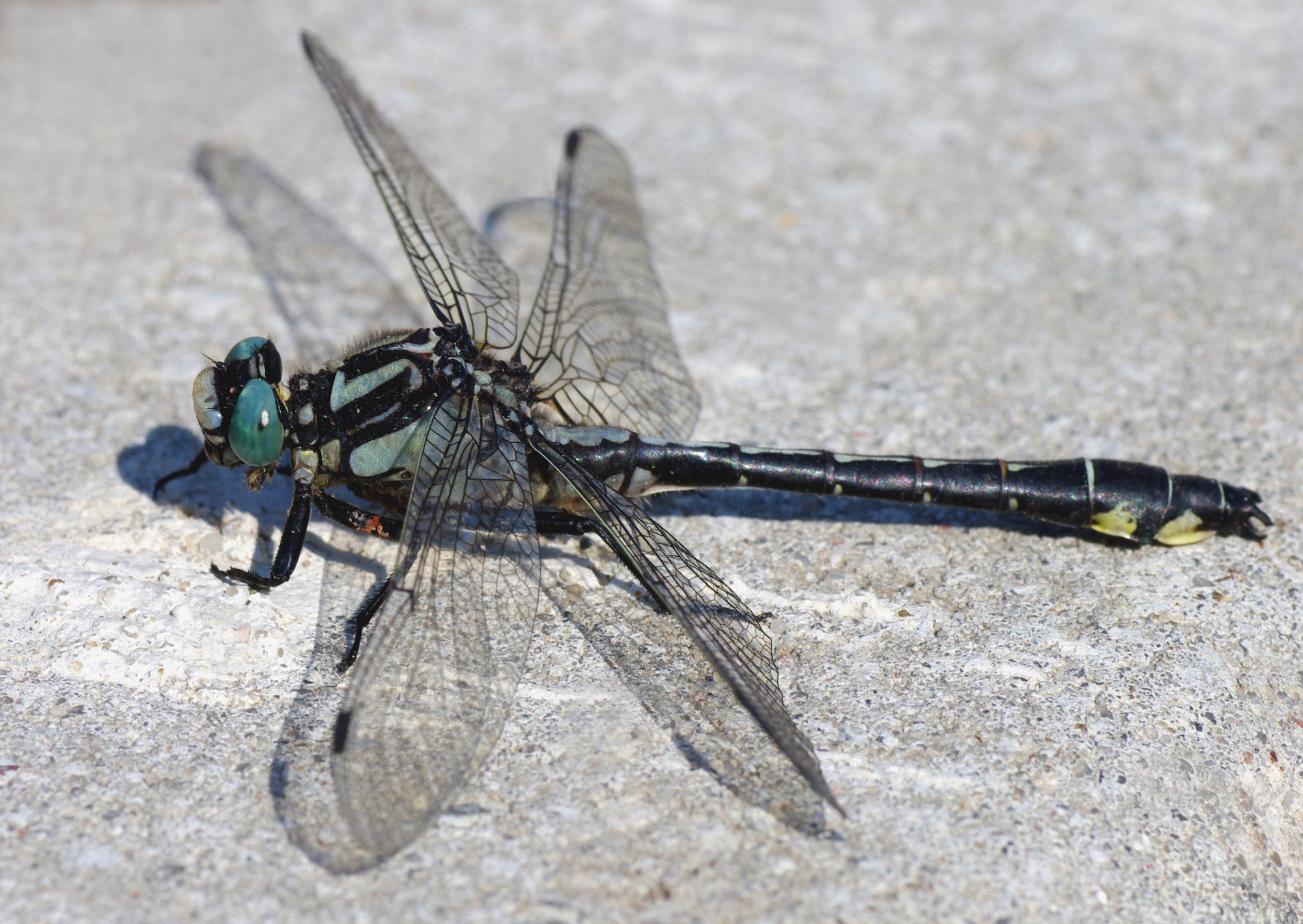 Adult male Common Club-tail (Gomphus vulgatissimus).